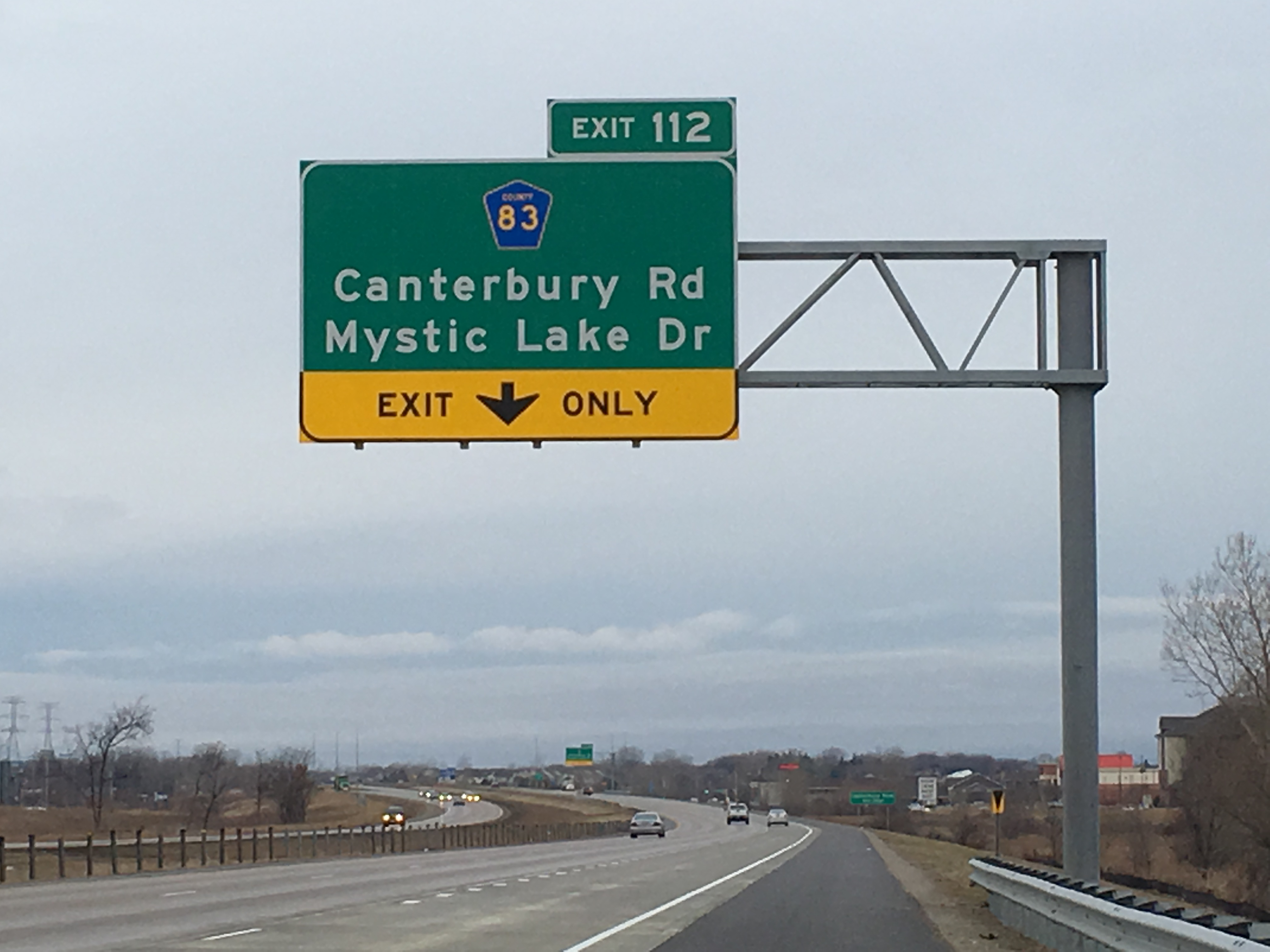 Exit numbers signed on US-169 in Minnesota. Photo taken Feb. 28, 2016